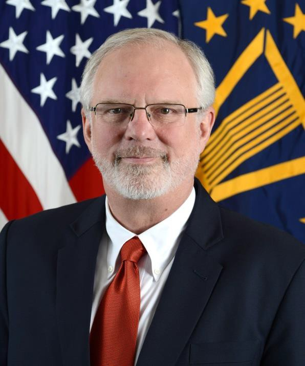 A picture of the incumbent US Assistant Secretary of Defense for Asian and Pacific Security Affairs